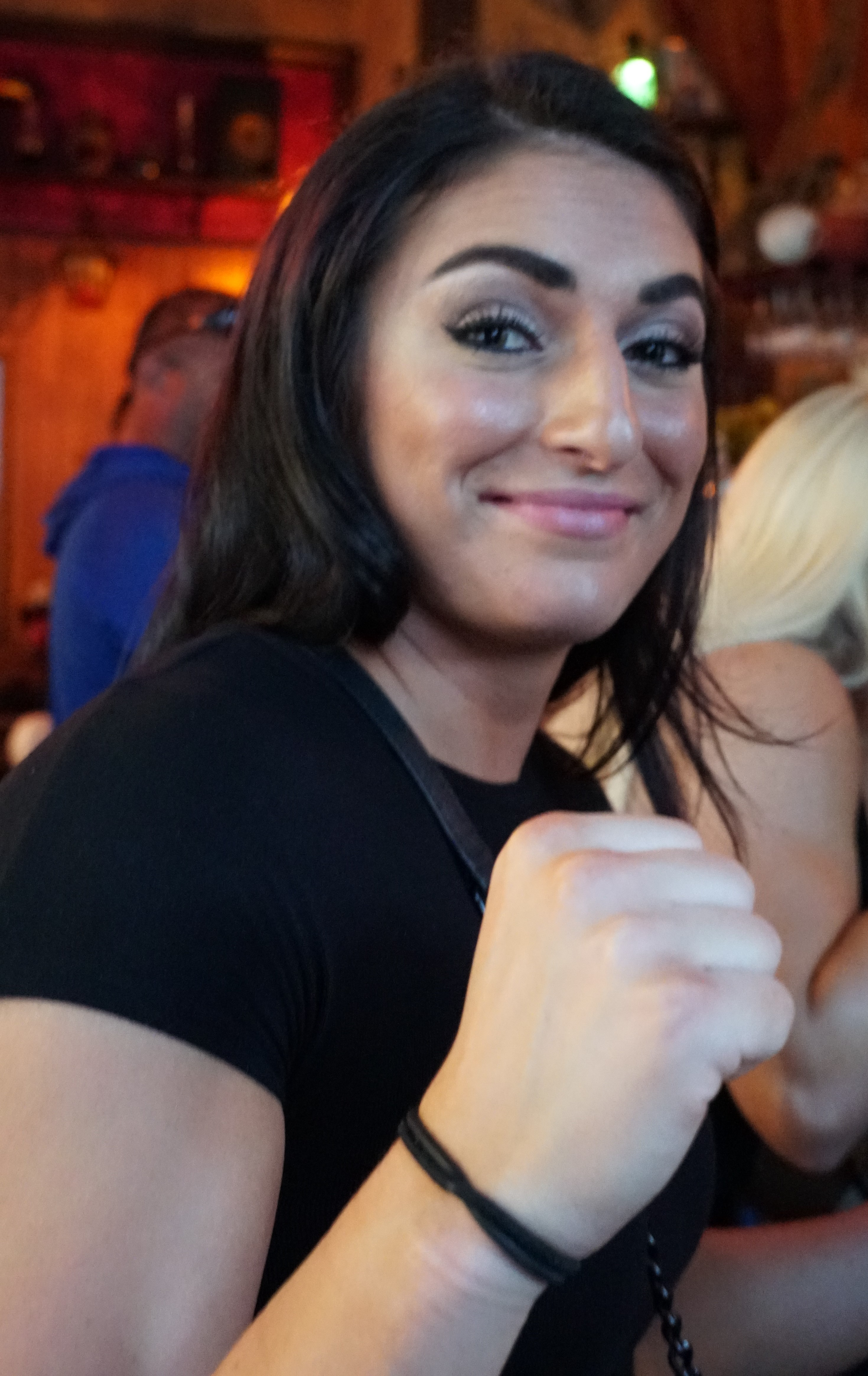 Sonia Deville during a taping of Total Divas during WrestleMania weekend in April 2018.